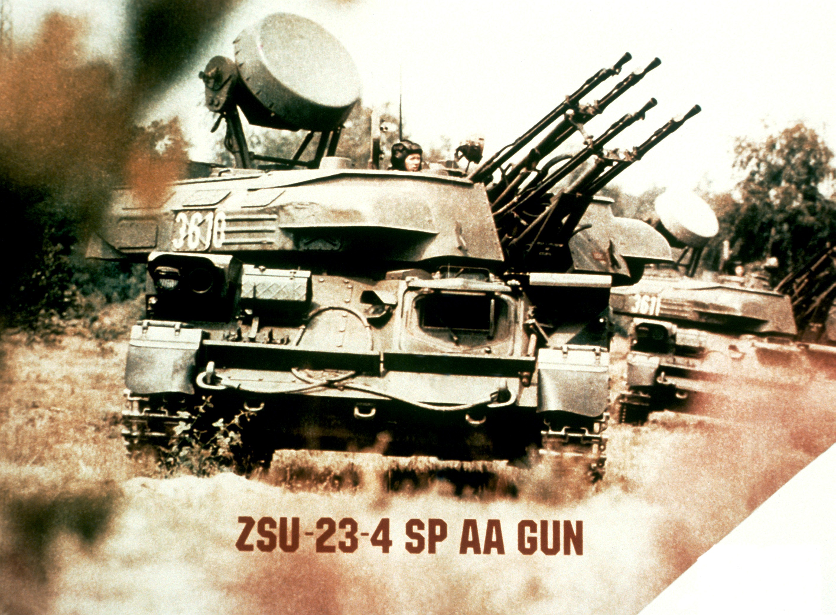 A view of a Soviet ZSU-23-4 SP anti-aircraft gun.